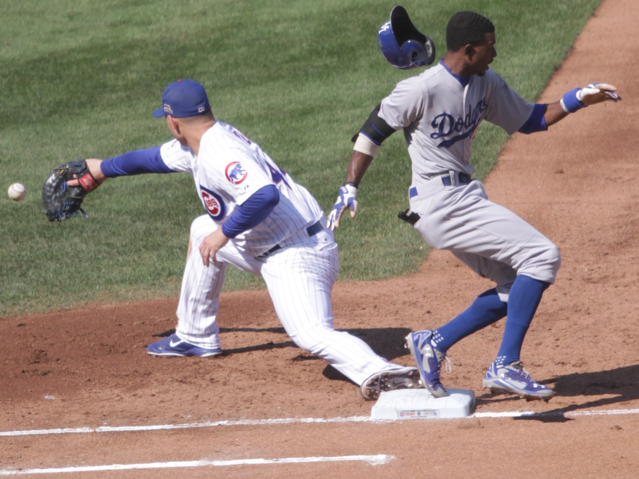 Dee Gordon gets an infield single for the 2014 Los Angeles Dodgers against the 2014 Chicago Cubs at Wrigley Field. Anthony Rizzo at first.